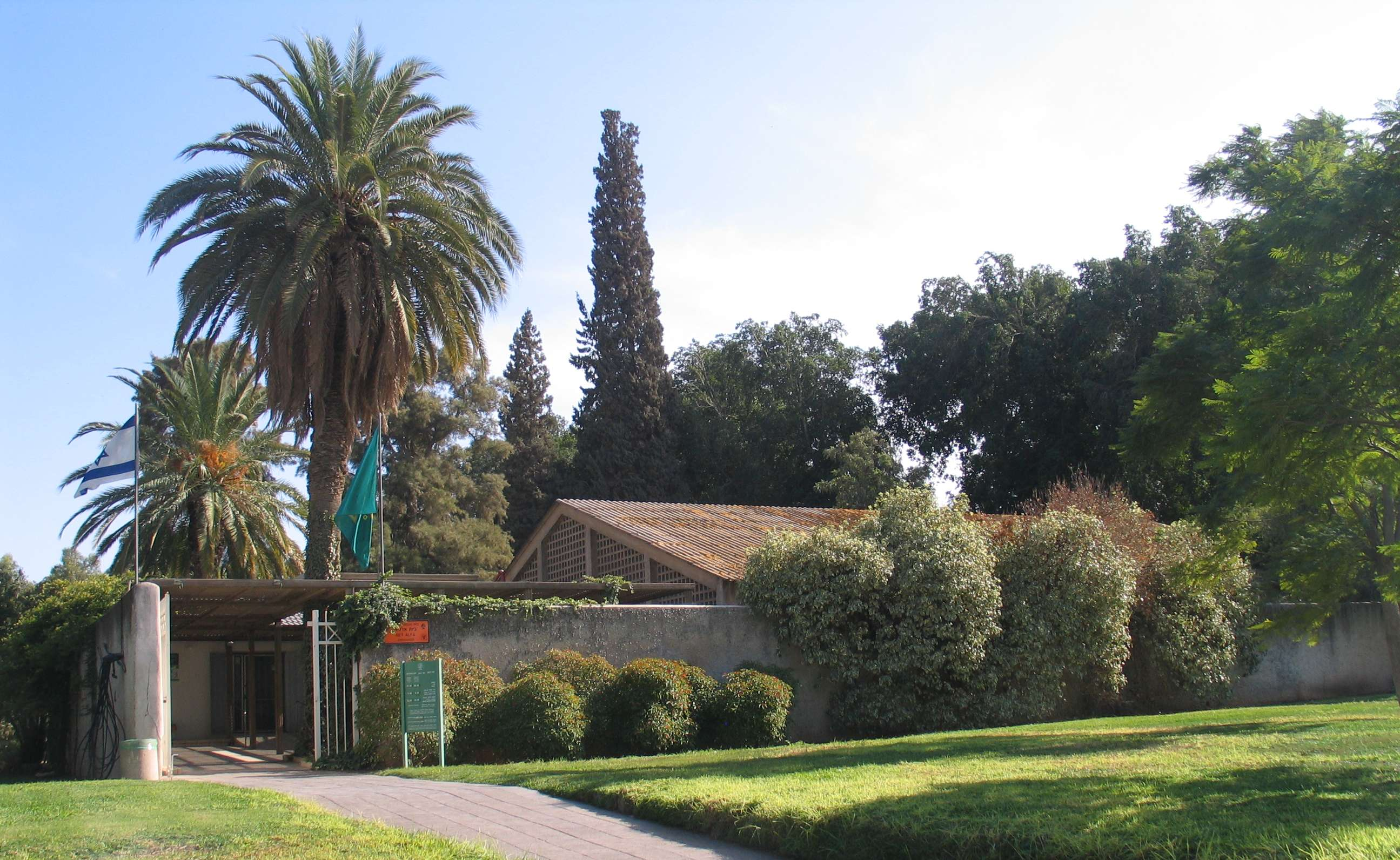 Beyt Alfa national park, Israel.